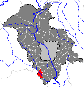 This map shows the area of the Gemeinde (municipality) Dobl in the Bezirk (district) Graz-Umgebung, Styria, Austria.